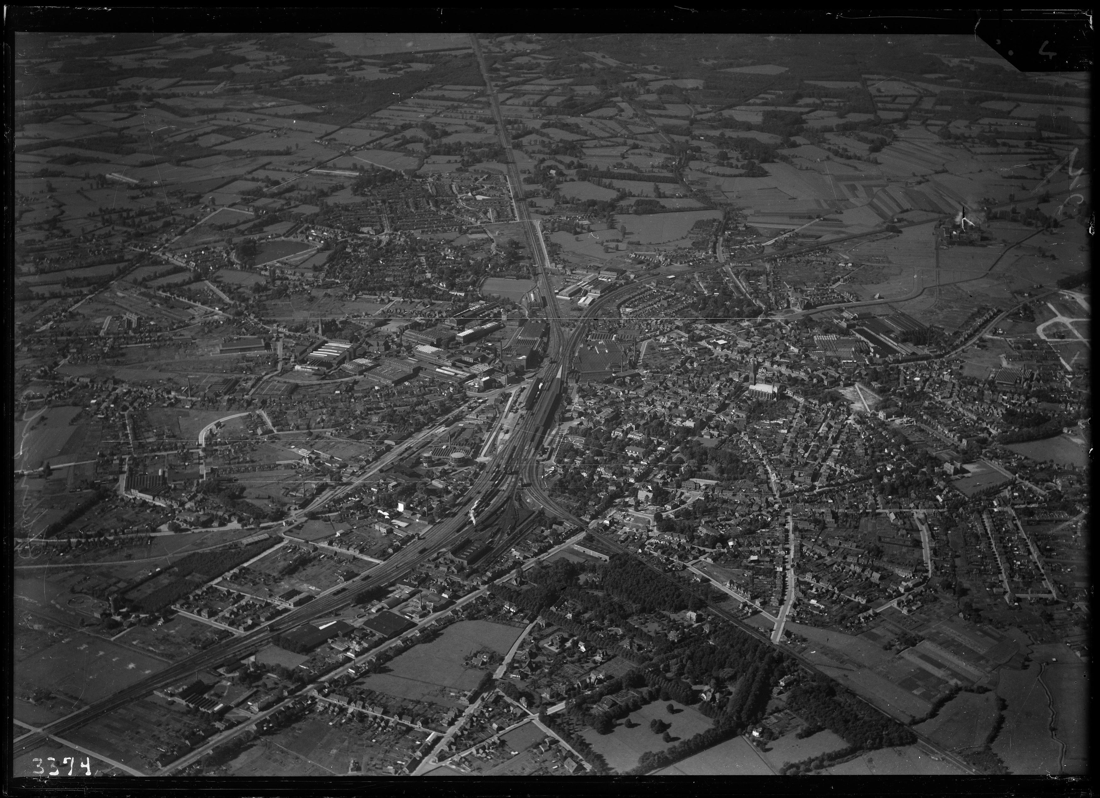 Aerial photograph of Hengelo, The Netherlands